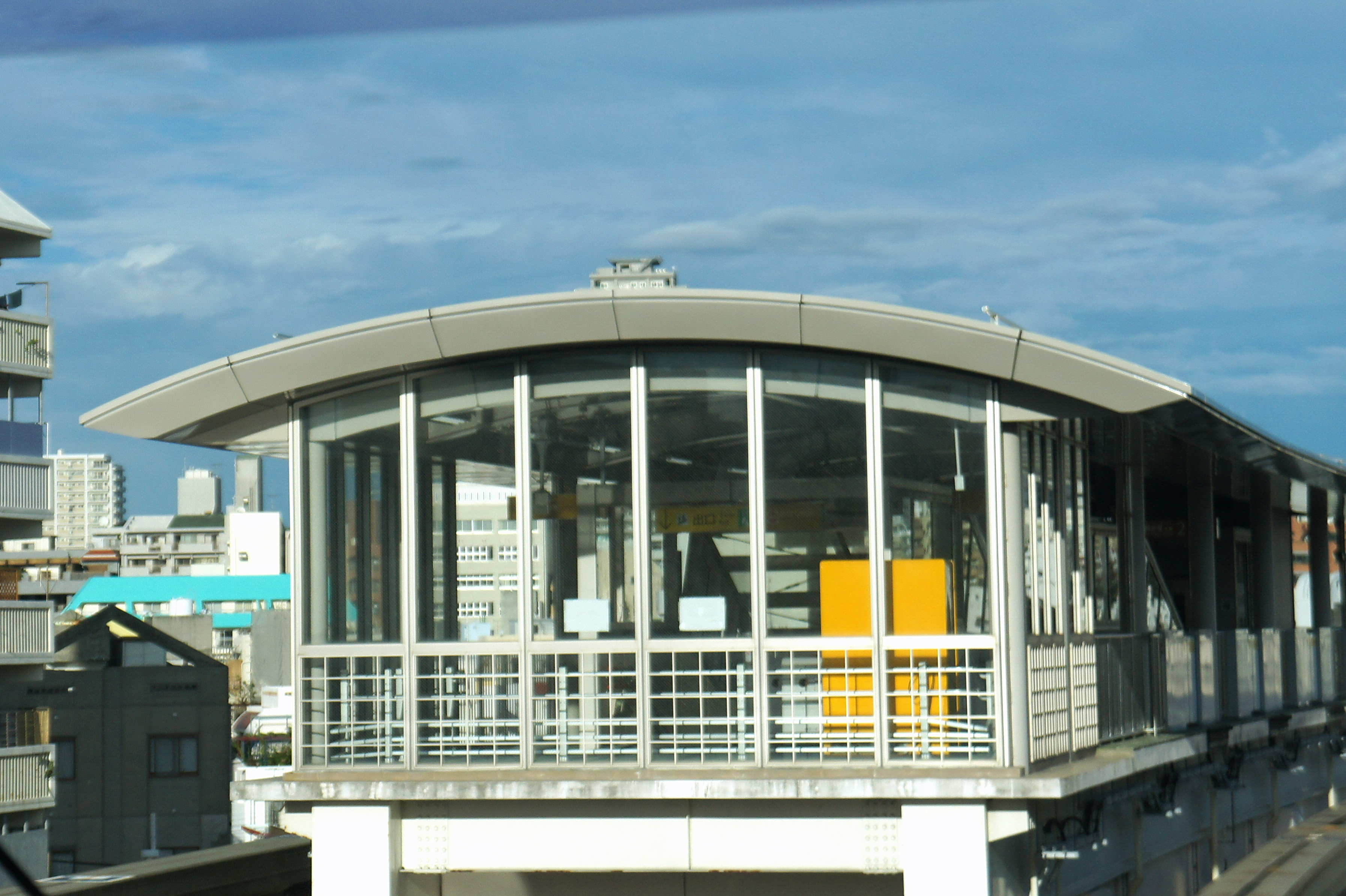 Okinawa City Monorail Line (Yui Rail) Miebashi Station (Okinawa)